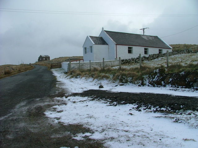 Free Church of Scotland. In the township of Kilmaluag. The building in the distance is part of the old RAF Kendram, Chain Home Low, radar tracking station built in the 1940's and part of a network of stations built to protect the British Isles.